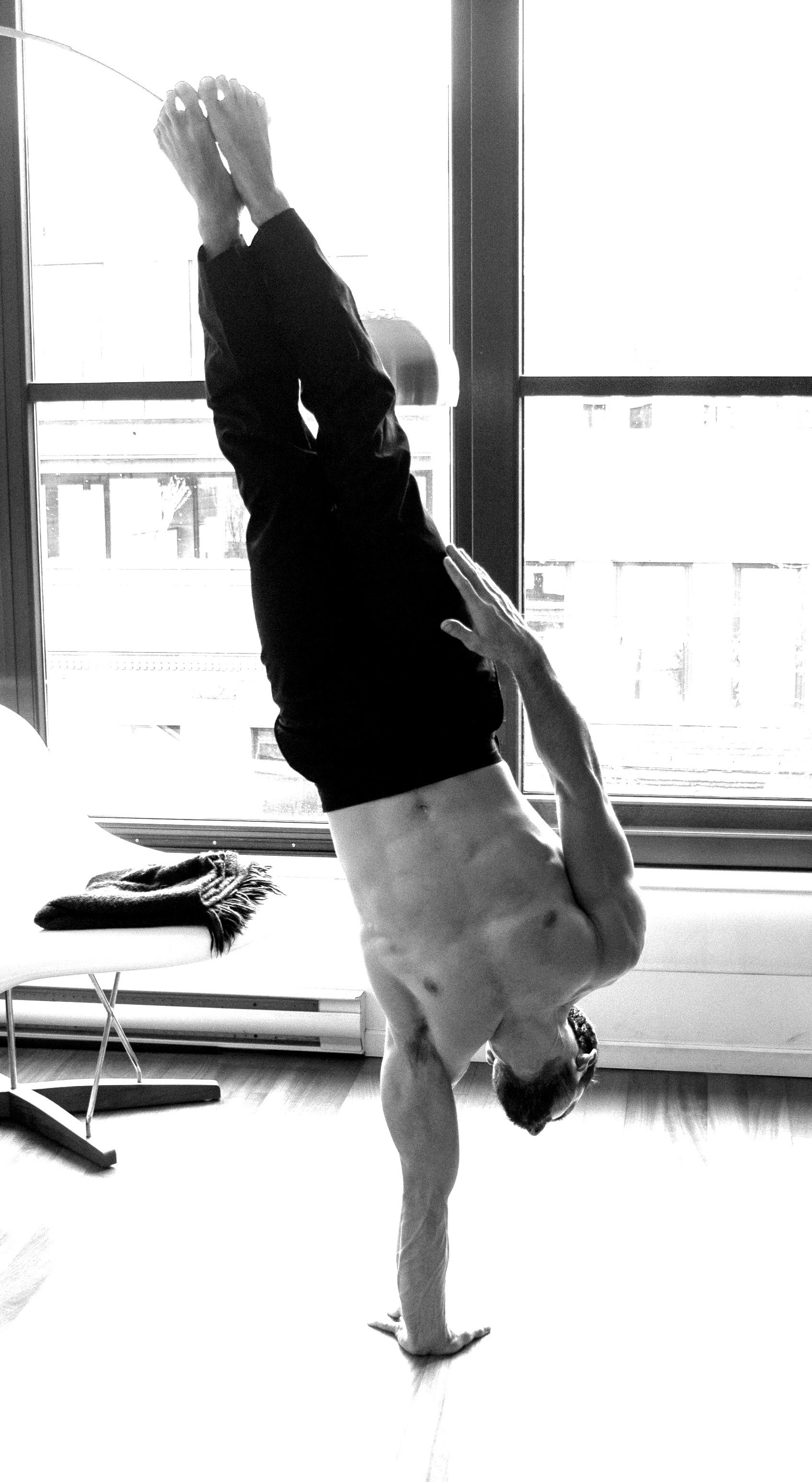 One arm handstand. Gymnastics movement performed primarily in the the disciplines of acrosport and hand balancing. It used to be visible in artistic gymnastics, per example on the floor, parallel bars or beam, but is rarely ever performed in competitive gymnastics anymore. An other discipline where they are used is breakdancing